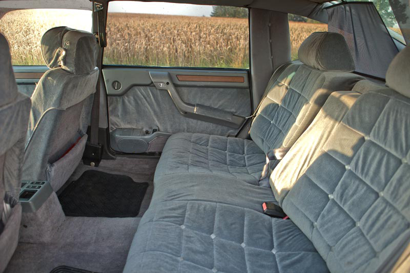 Citroen CX Prestige Fond, rear seat